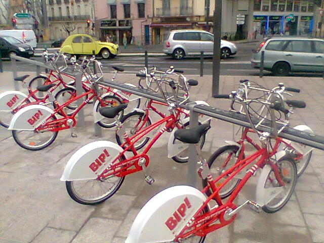 It's a bike station